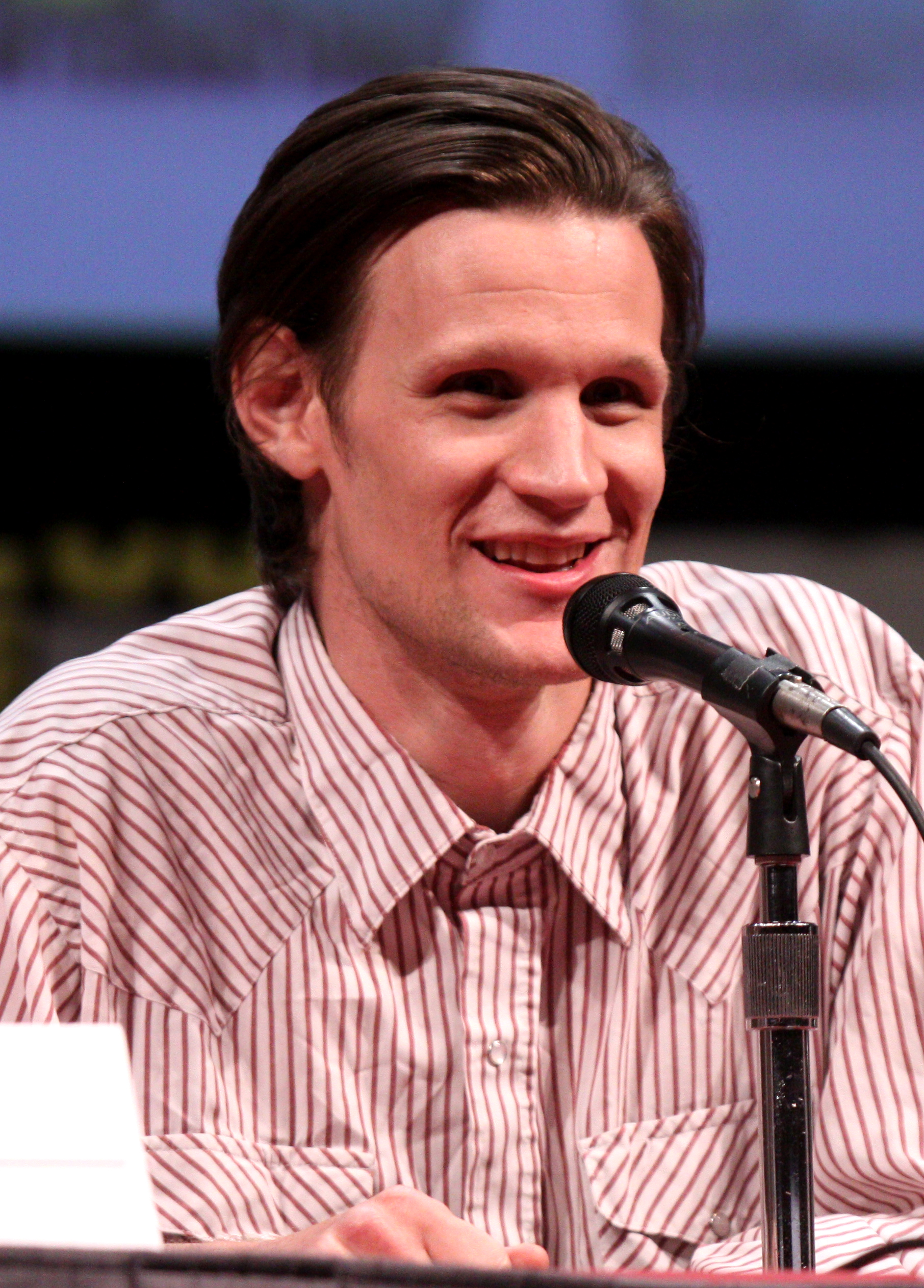 Matt Smith at the 2011 Comic Con in San Diego